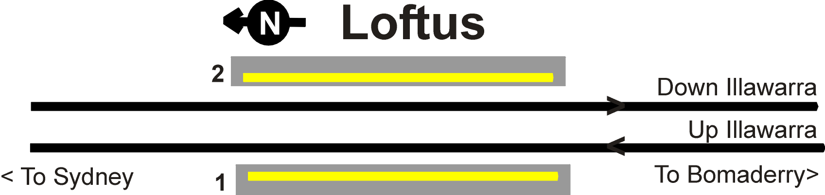 Track layout at Loftus railway station